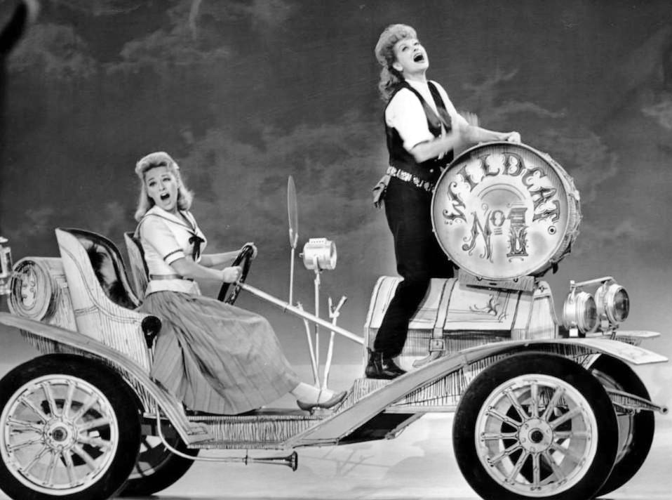 Lucille Ball and Paula Stewart enacting a scene from the Broadway musical Wildcat on the television program The Ed Sullivan Show.